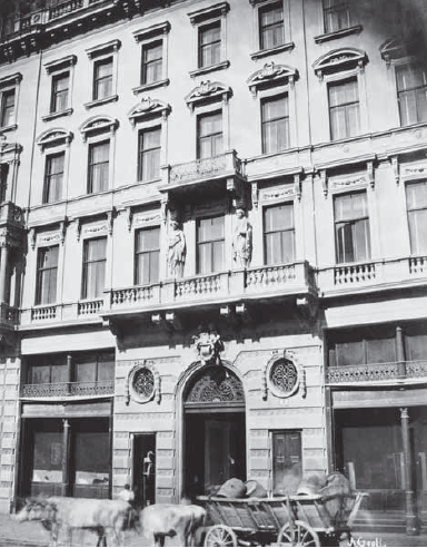 Building of the Dreher Family, Vienna